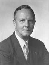 Portrait of Senator Stephen Young of Ohio